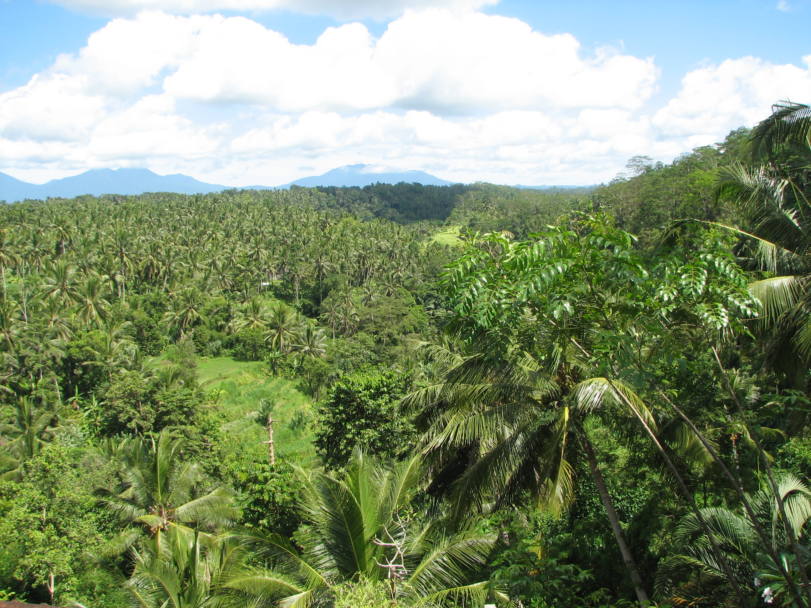 Rainforest (Bali, Indonesia)